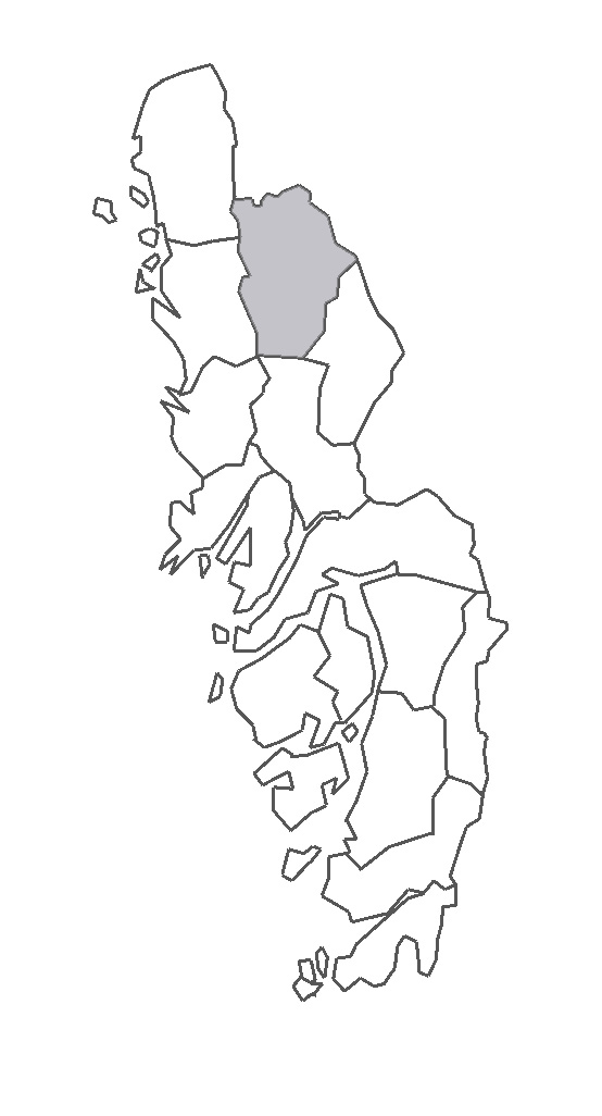 Map describing the location of Bullaren Hundred in Bohuslän Province, Sweden.